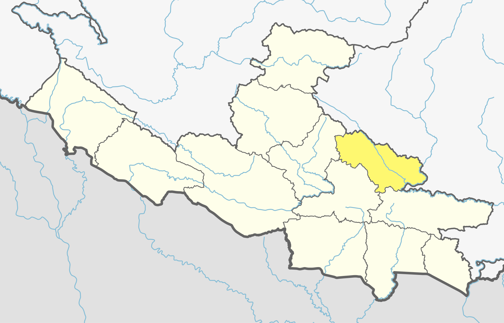 Gulmi District